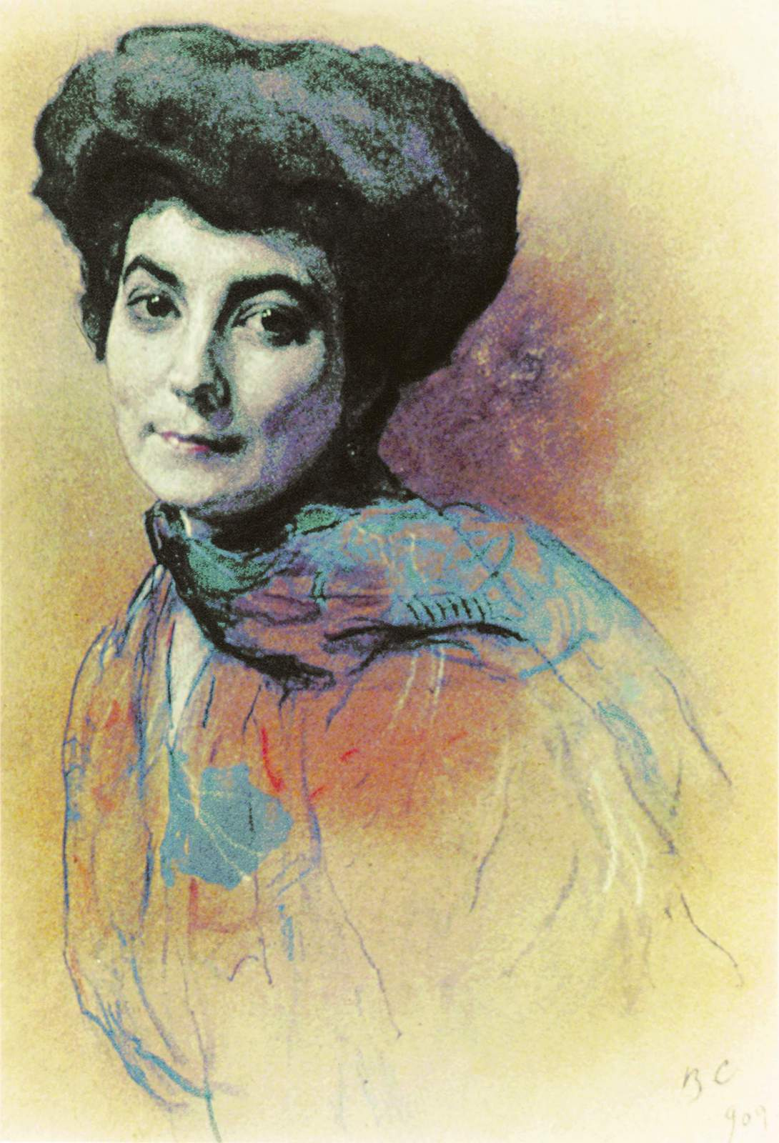 Walentin Alexandrowitsch Serow "Portret of Helena Roerich". 1909